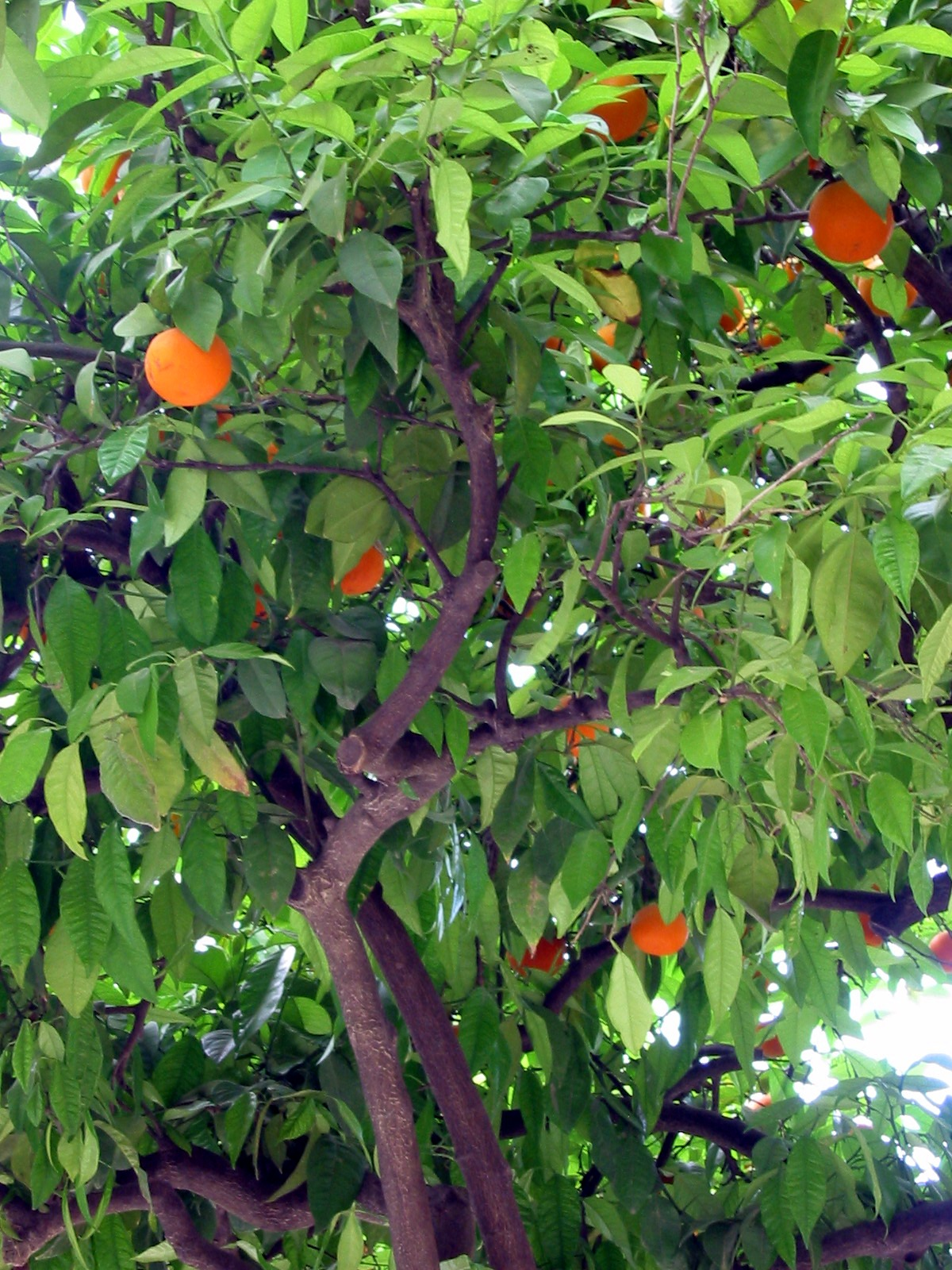 Sevilla has orange trees everywhere.